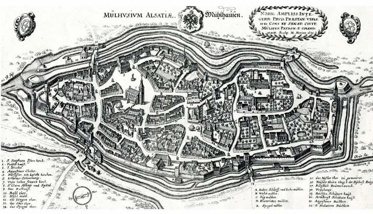 Historic map of Mulhouse, Haut-Rhin, France